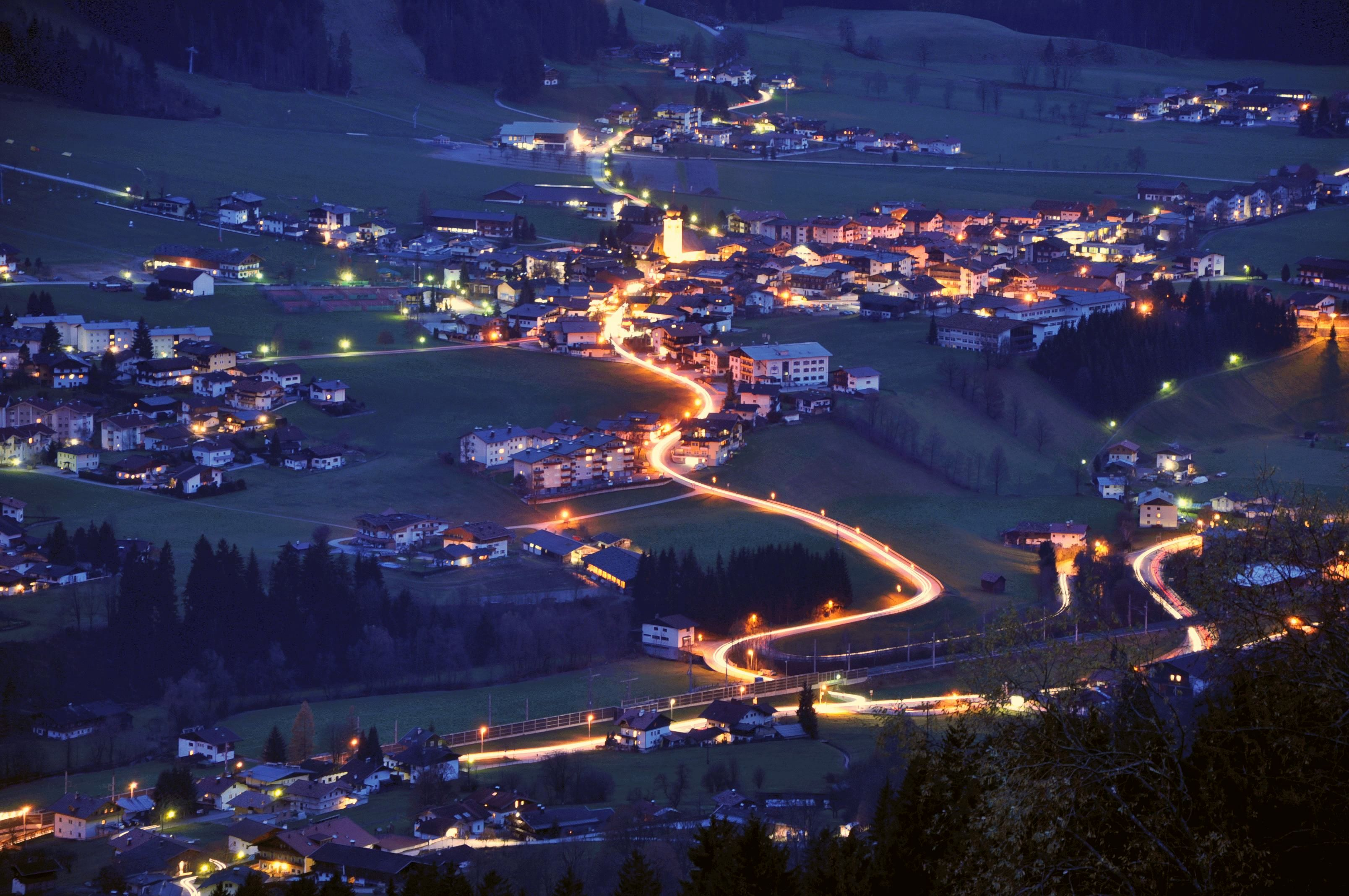 center of Westendorf, about 90sec exposure (stack of 3x30sec)